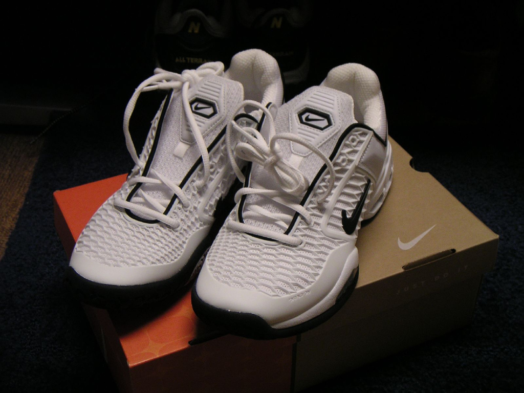 Ahhh...what could be better than a brand new pair of Nike's Air Max Breathe Free II's? How about a Free pair?! Yeah, I wore out the outsoles of my last pair (yellow/blue) and I used the Nike 6-month guarantee to get a new pair. They sent me a new one in less than a week, no questions asked! I got the orginal ones discounted from $110 to $80, then wore them to the bone (returning them exactly 6 months minus one day) and they totally honored their guarantee; I highly recommend these shoes; they have the highest shoe rating on : 4.6 out of 5.0 You can't even buy these puppies anymore...they don't manufacture anymore and even with Ebay, it's almost impossible to get it in my size. The newer model BF3's have been given mixed reviews; I'm very very happy with these new ones and should last me another 5-6 months in the summer heat I expect.